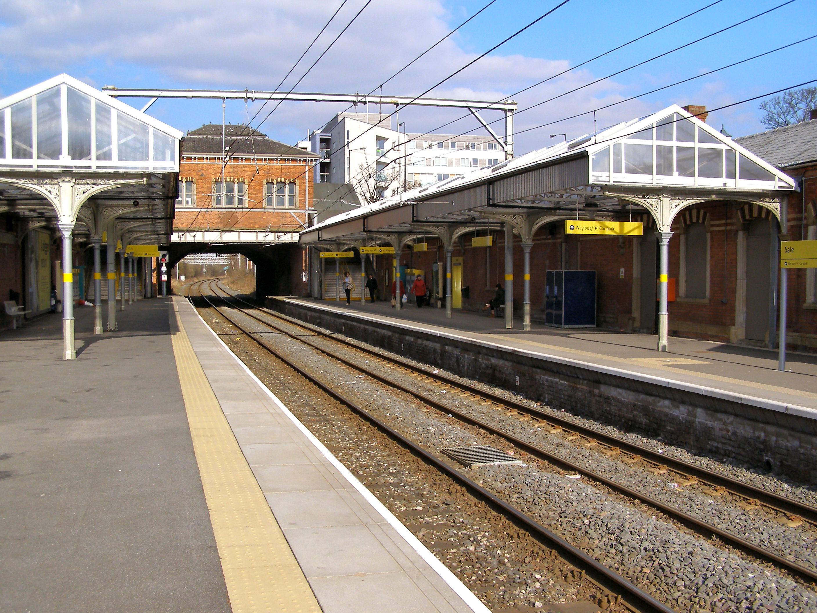 Sale Station Looking in the direction of Manchester.